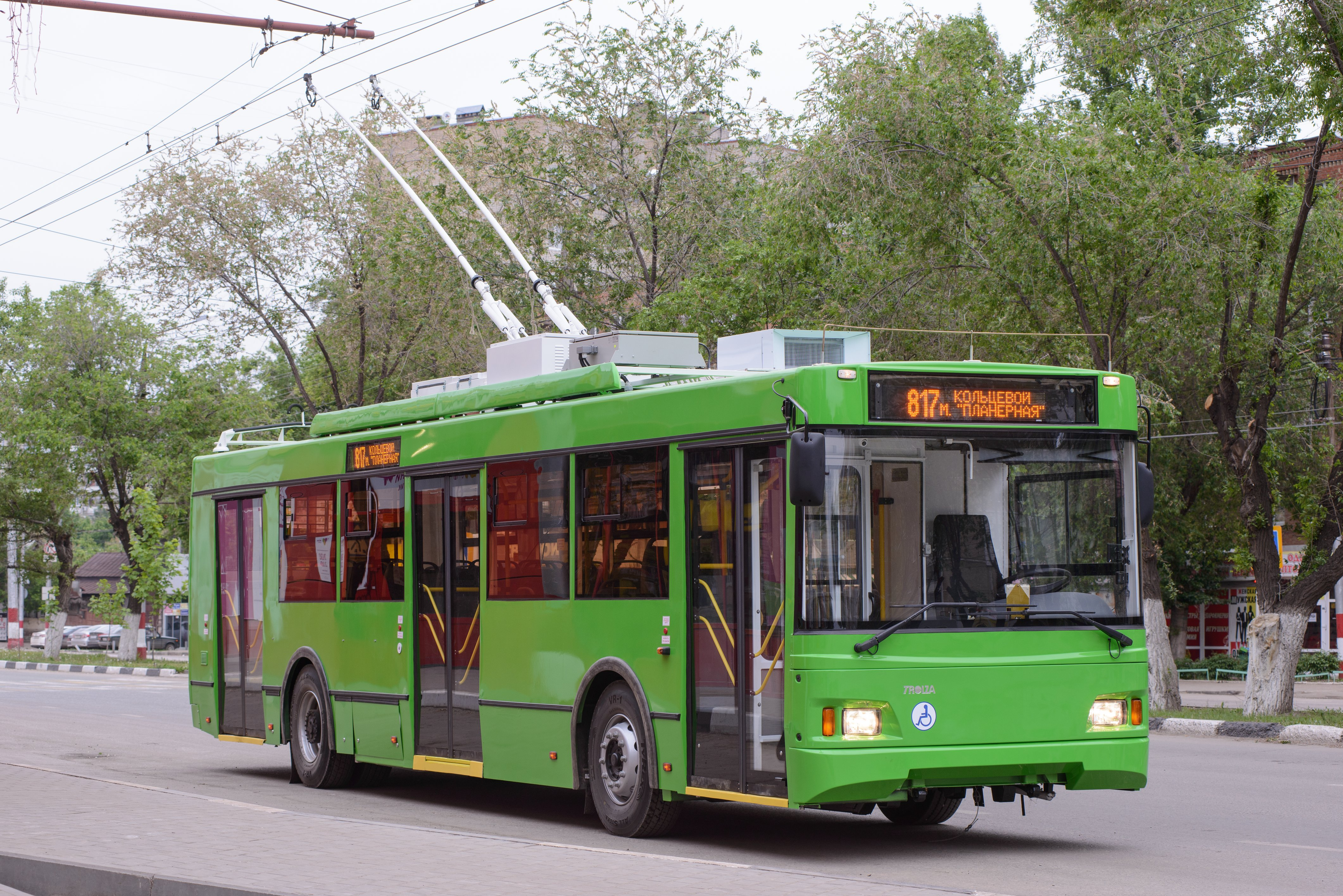 Trolza-5275.03 "Optima"